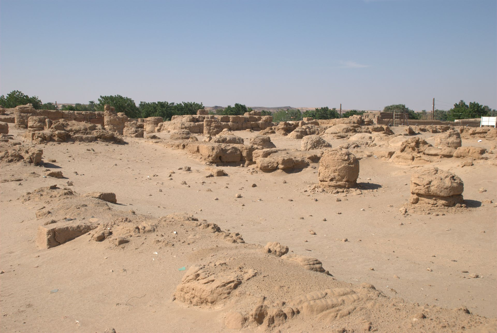 Temple of king Taharqa, Sanam, Sudan, from southeast